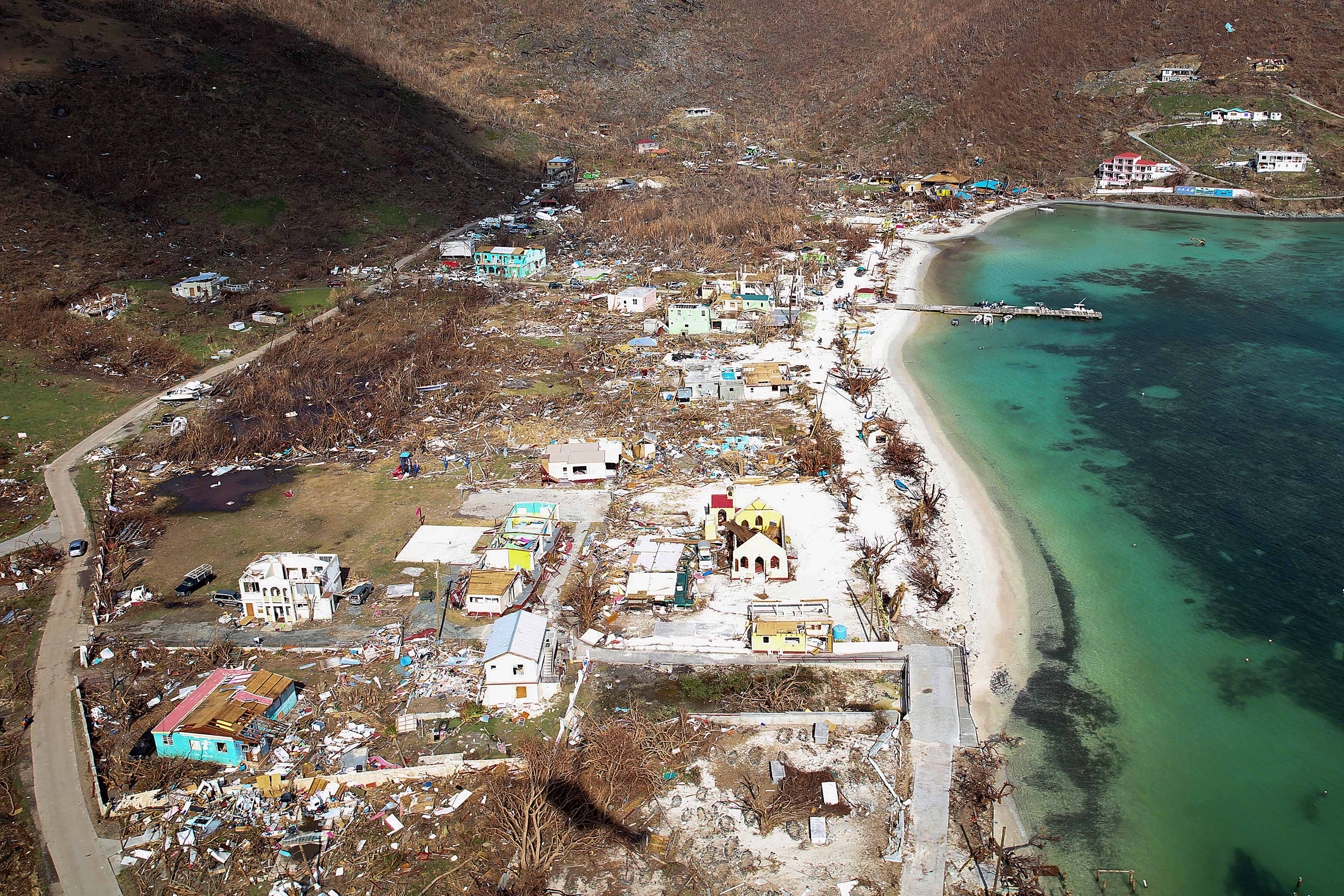 Picture shows the devastation of the island of Jost Van Dyke after hurricane Irma. A small team of Royal Marines from Alpha Company, 40 Commando, landed on Jost Van Dyke; a small island North West of the island of Tortola. The team helped to deliver essential aid utilising a small boat to support this isolated community of just 300 people. In addition to the provision of aid, they also helped to clear buildings and provide security to this welcoming community who were working hard to restore their normal way of life. The Commandos were unsure of what to expect when they arrived and had to assess the situation upon their arrival. More info: GOV UK Picture: MOD